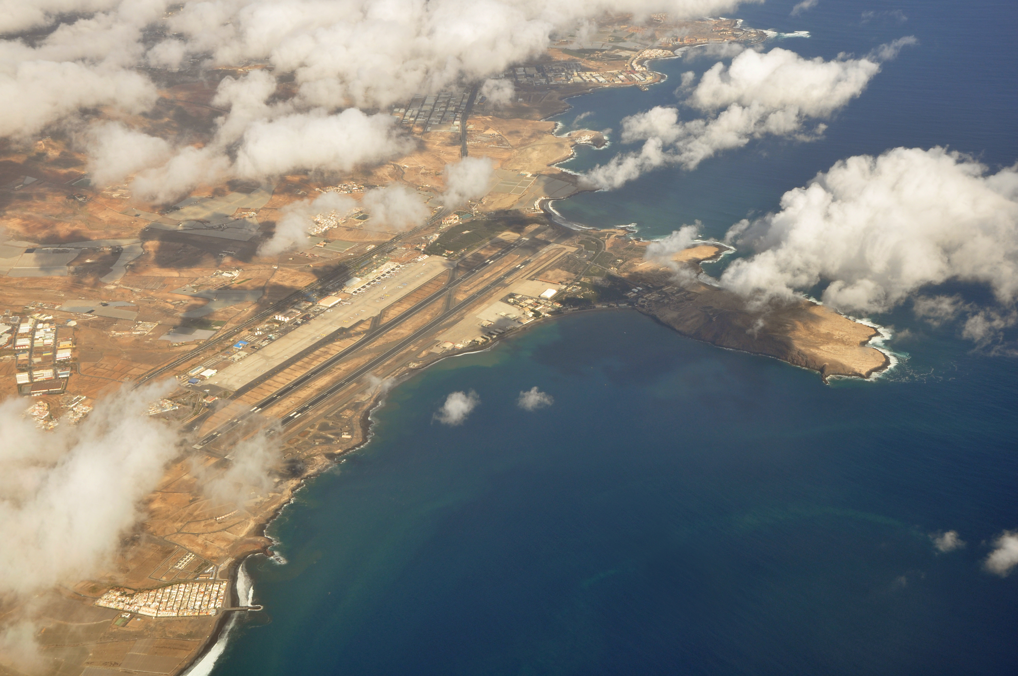 Gran Canaria: international airport